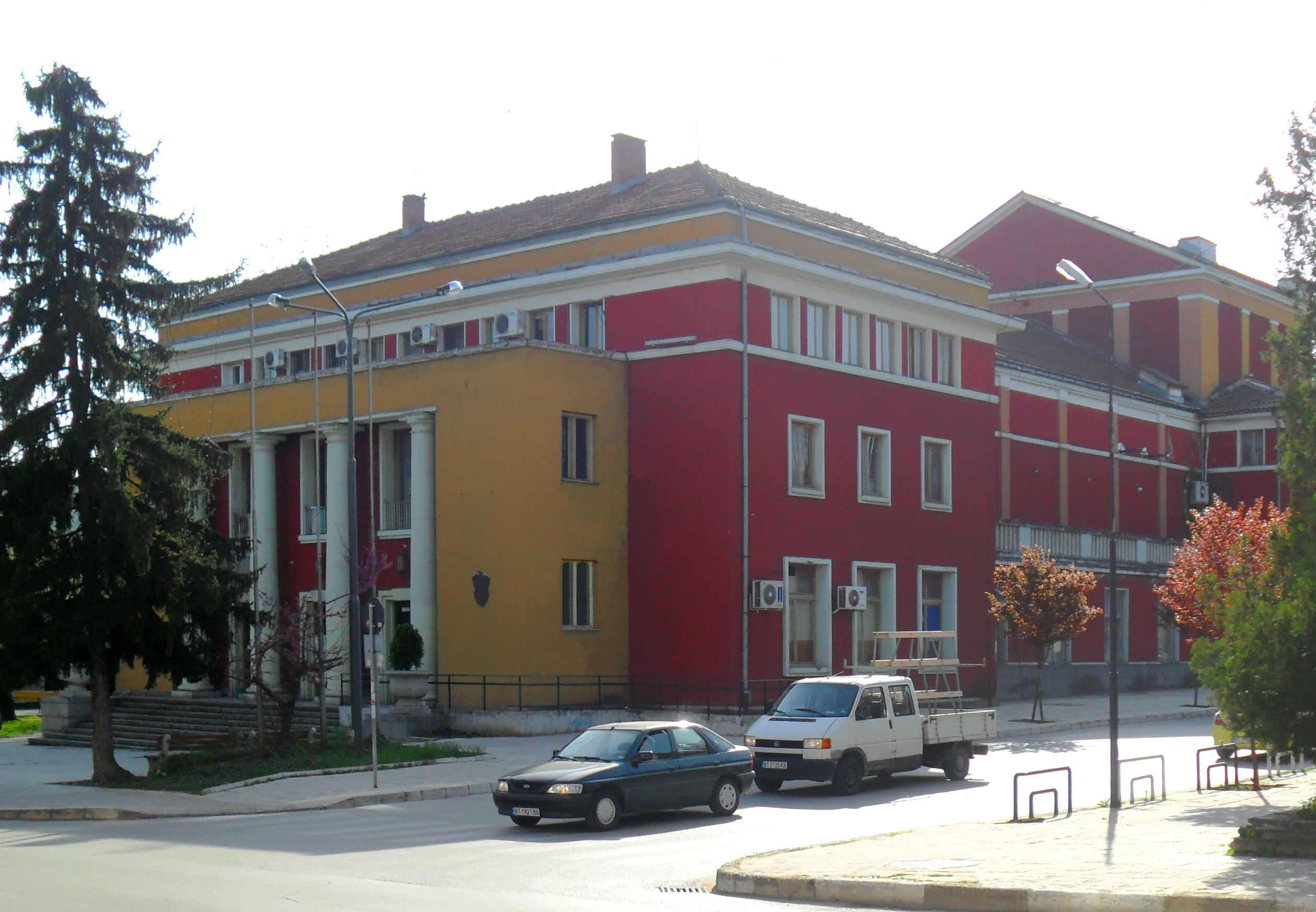 Gorna Oryahovitsa, Chitalishte "Napredak 1869", one of the culturals centers in the town